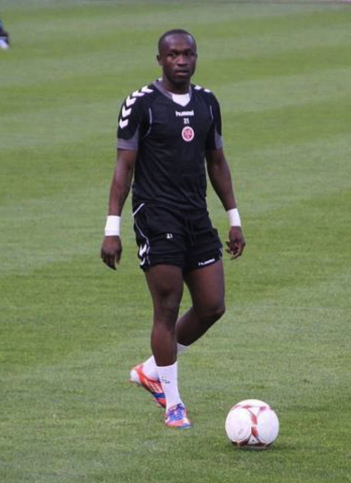 Bocundji Ca